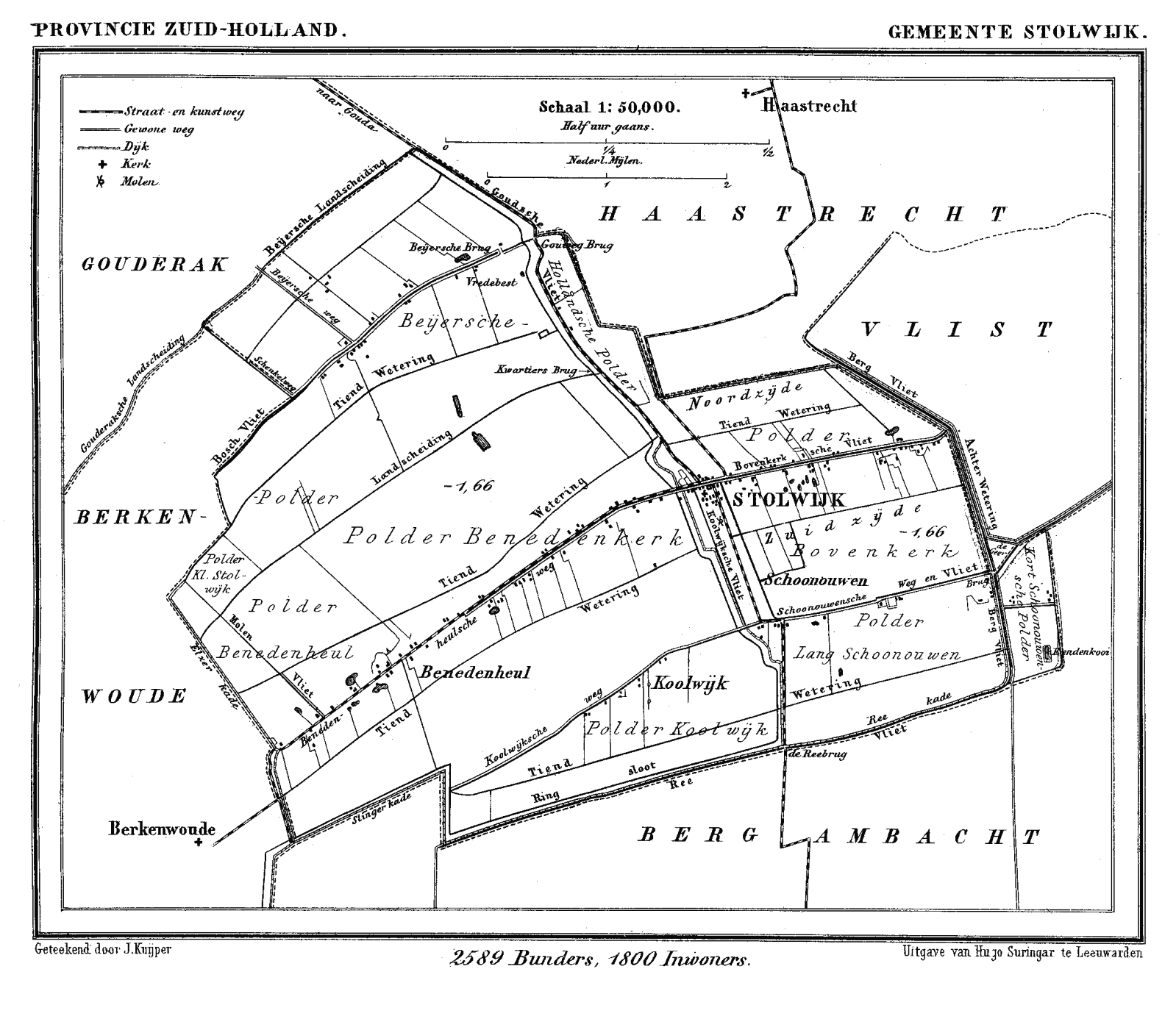 Historic map of Stolwijk (now part of municipality Vlist), South Holland, the Netherlands